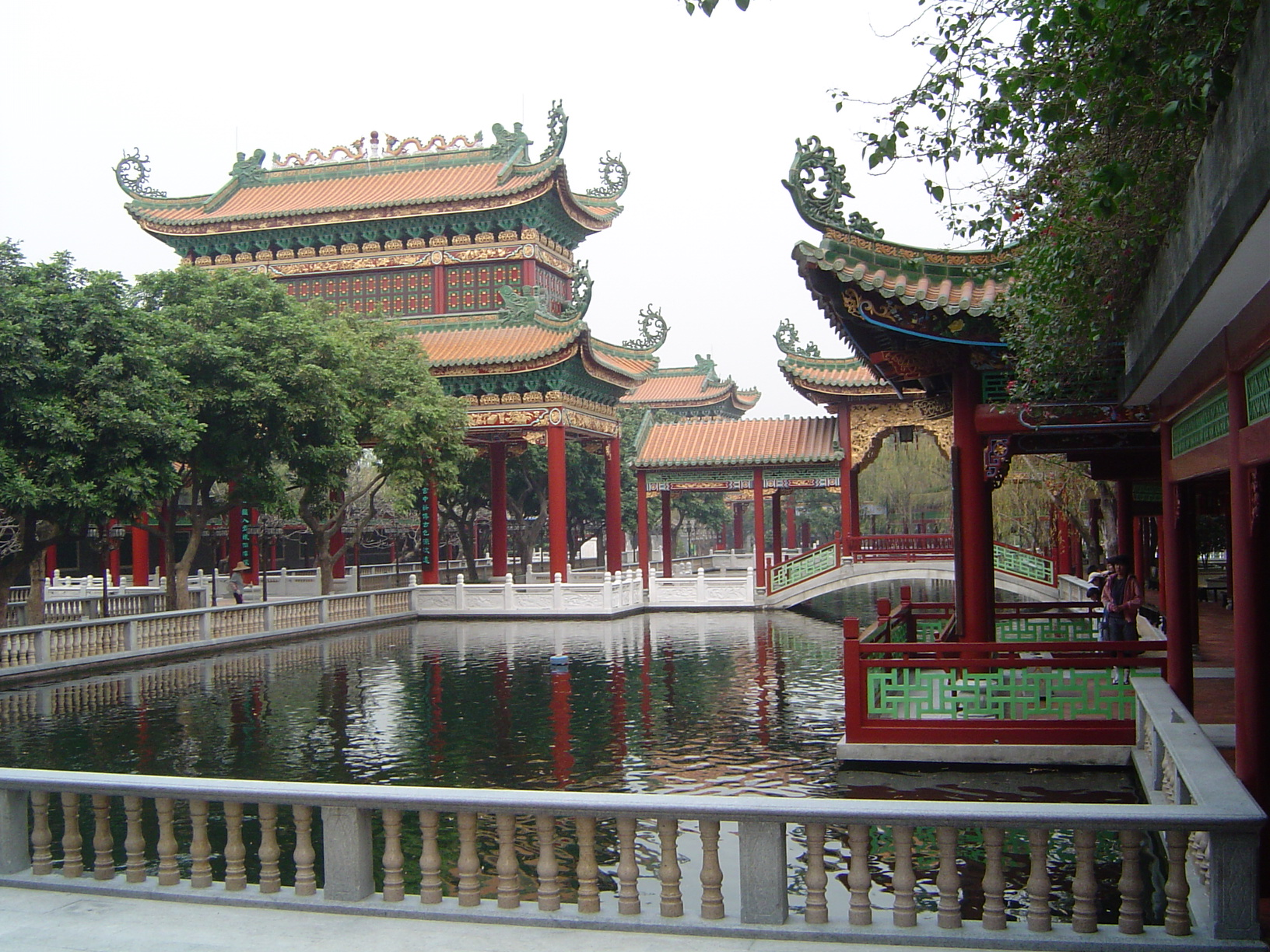 Picture shown is NOT Qinghui Garden in Shunde, but Baomo Garden in Panyu.